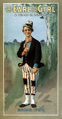 Scan of a 1905 theatre poster for the original New York production of The Earl and the Girl starring Eddie Foy The poster proclaims: "2 YEARS IN LONDON", referring to the show's long original run beginning in 1903.